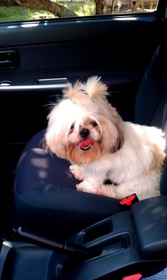 this dog is owned be mr. Ronald Guadiz, and has his permission to be posted.